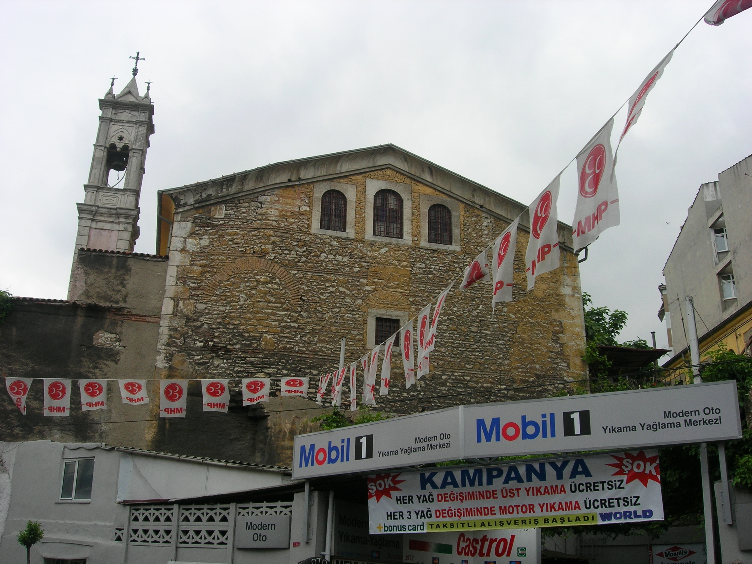 THe Church of Saint Menas in Samatya (Istanbul) seen from East